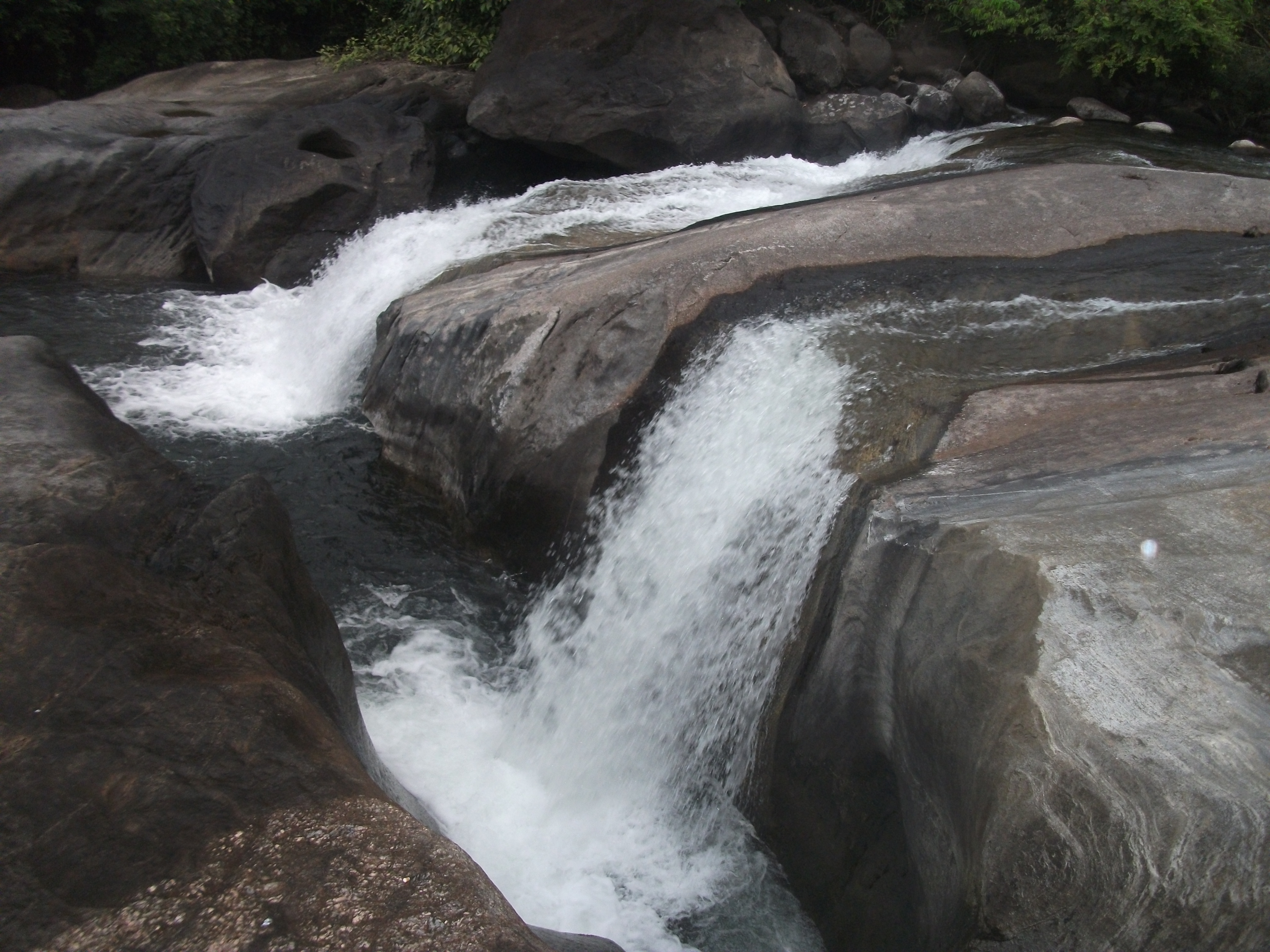 Arippara Waterfalls in Thiruvanpadi, Kozhikode district, Kerala